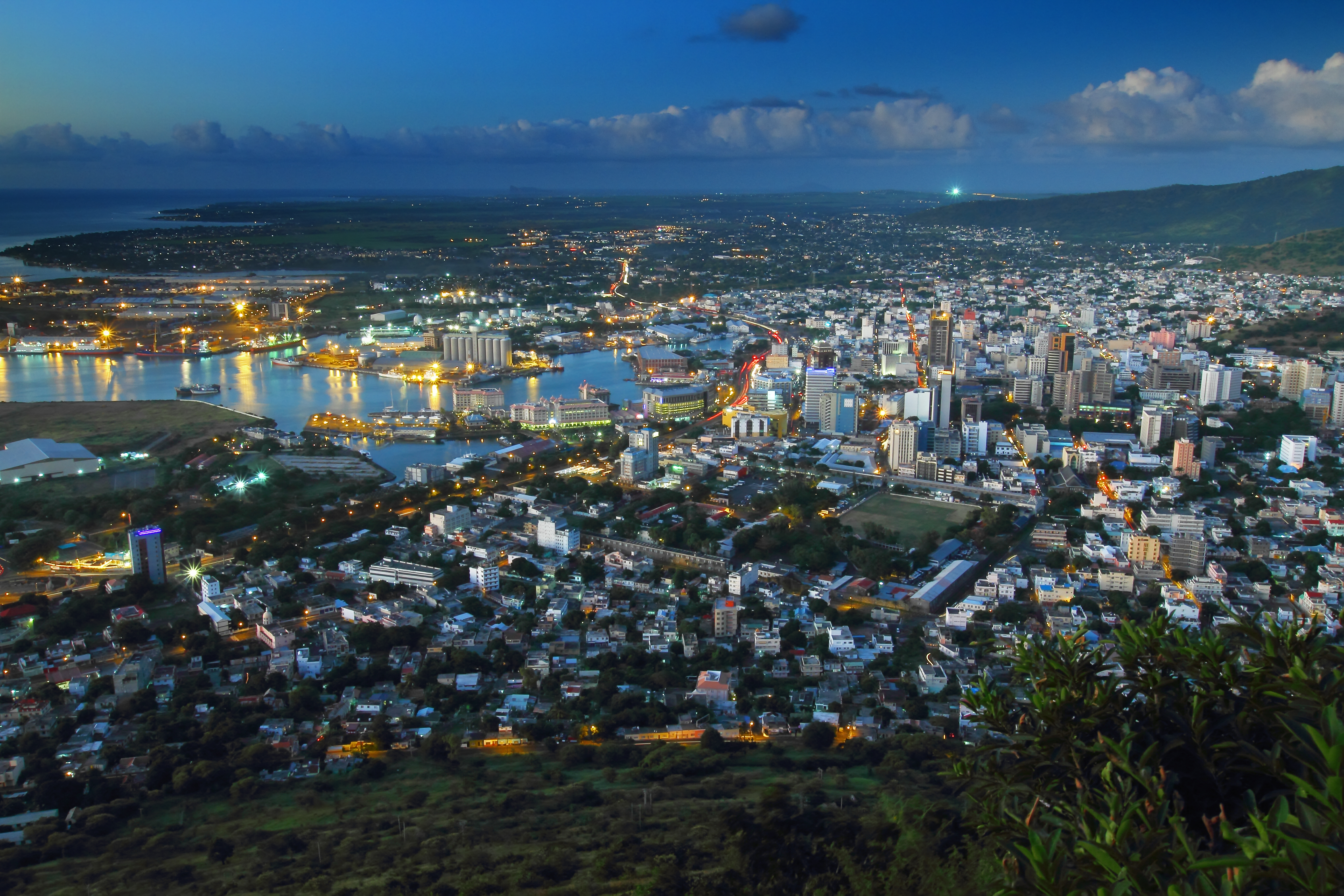 Port Louis, the capital city of Mauritius, is winding down in the evening. People are going for after work drinks or going home for a well deserved break. This image was taken from Mount Signal, to the south of the city. In this image you can see among other things financial district, Caudan waterfront, and the large square unmistakable police compound. In the distance, the northern shores of the island are visible with a shape of Point aux Cannonier barely discernible.